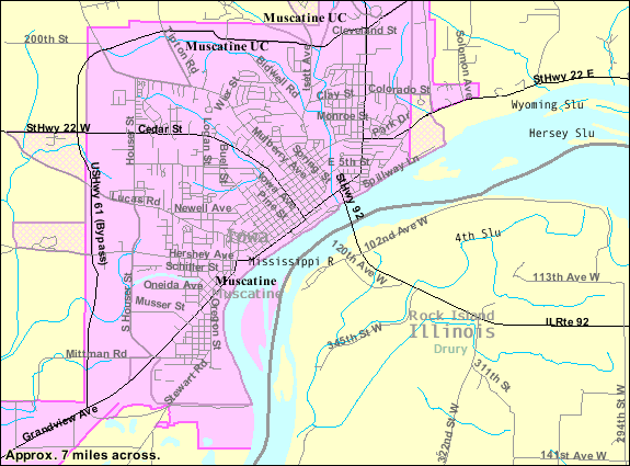 U.S. Census Map